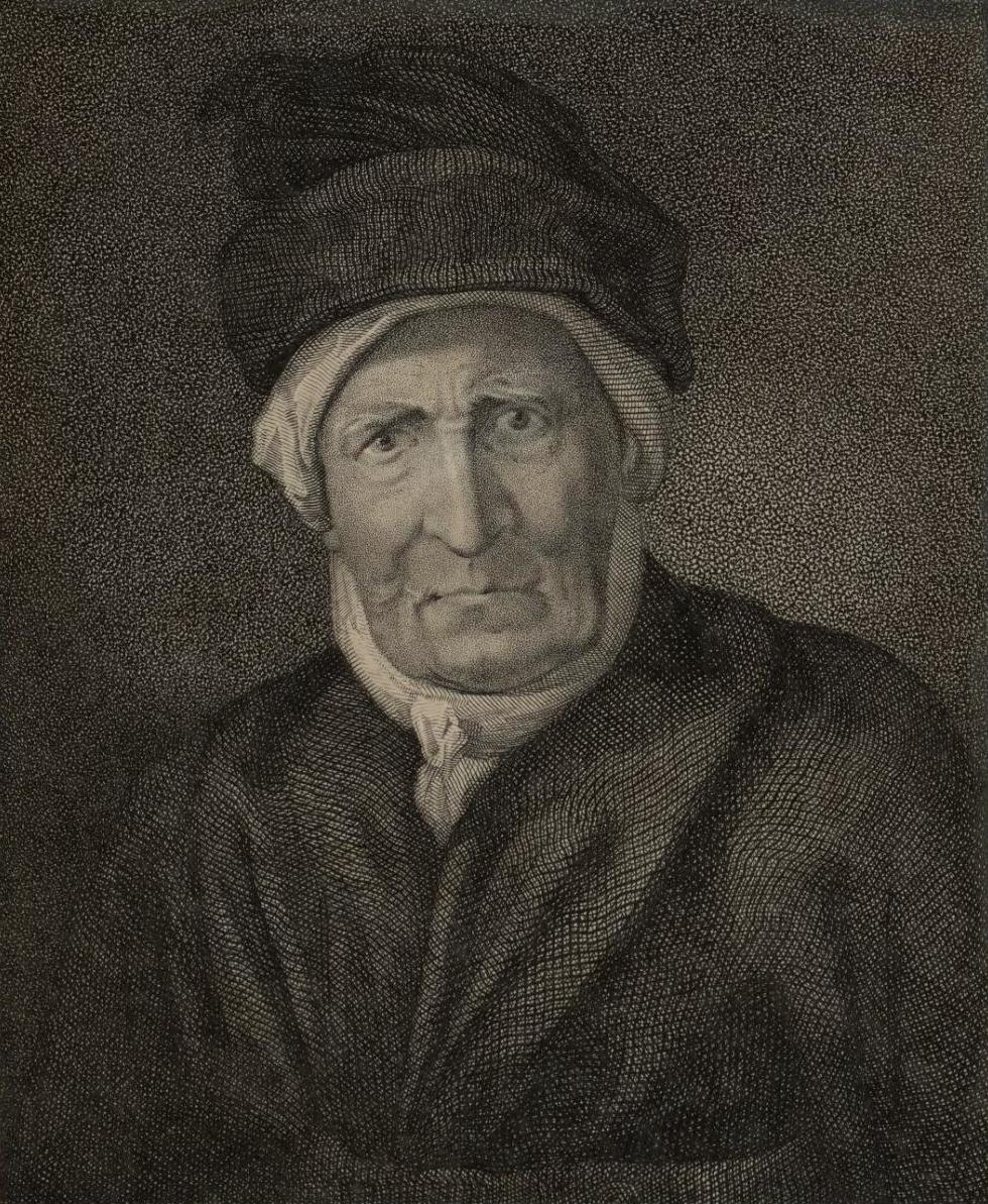 A portrait from the Welsh Portrait Collection at the National Library of Wales. Depicted person: Henry Owen – Welsh mathematician, theologian and biblical scholar